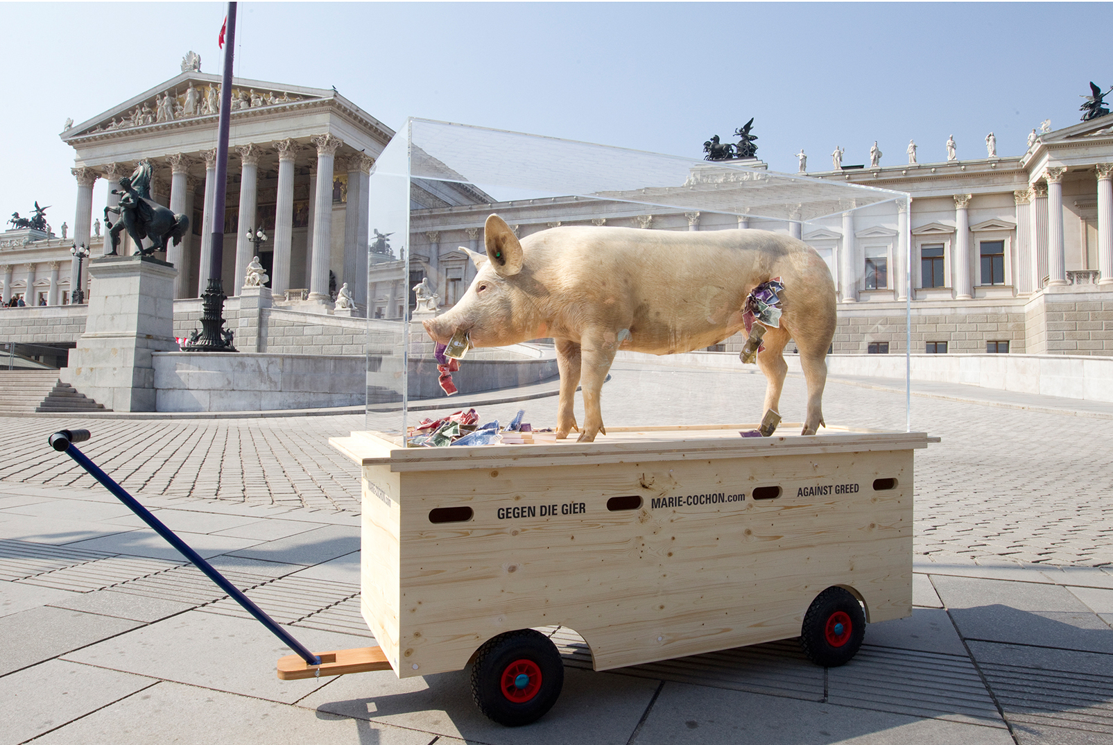 Foto: Franz Helmreich